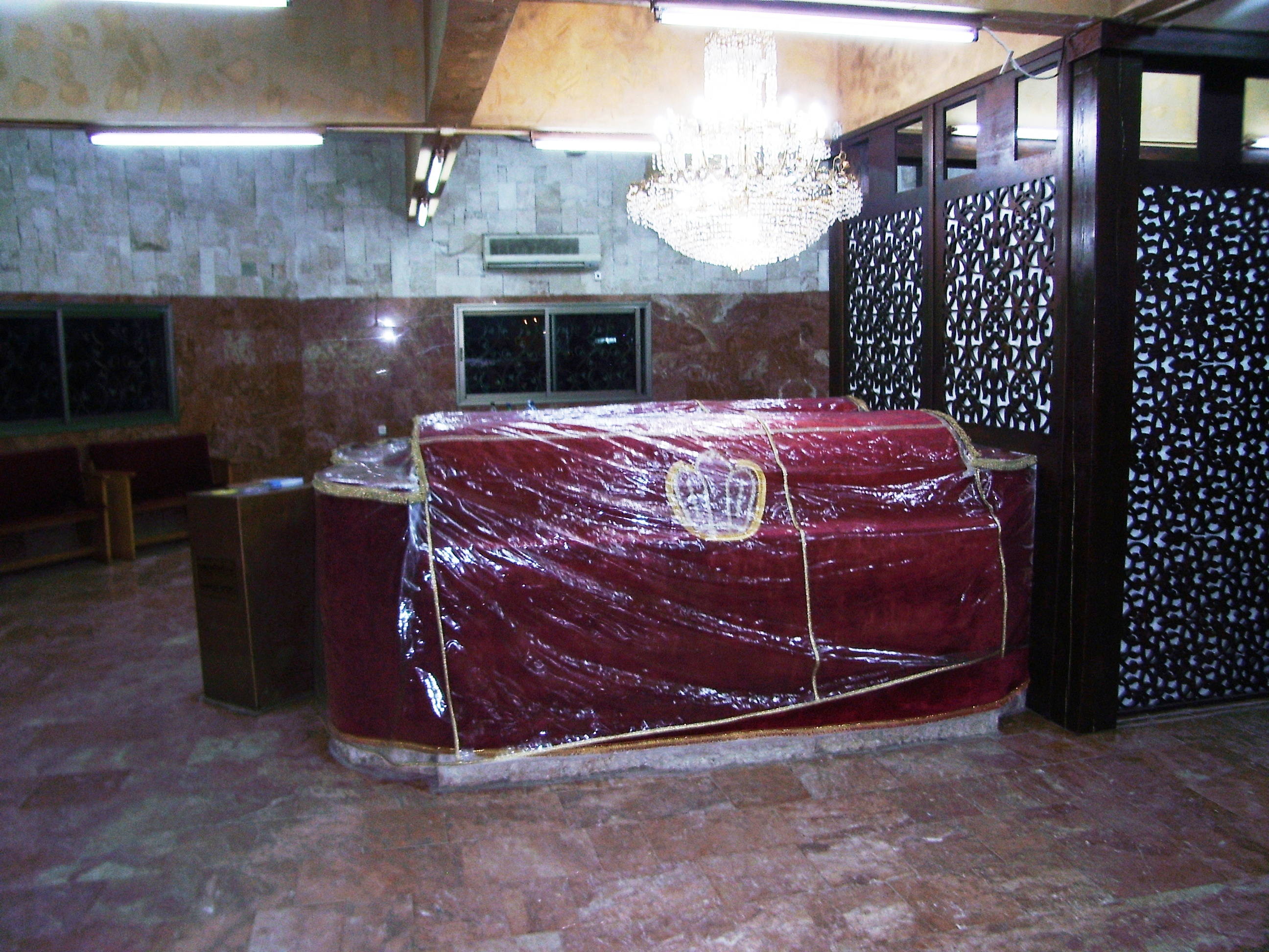 מצבת רבי חיים ויטאל בקרית מלאכי